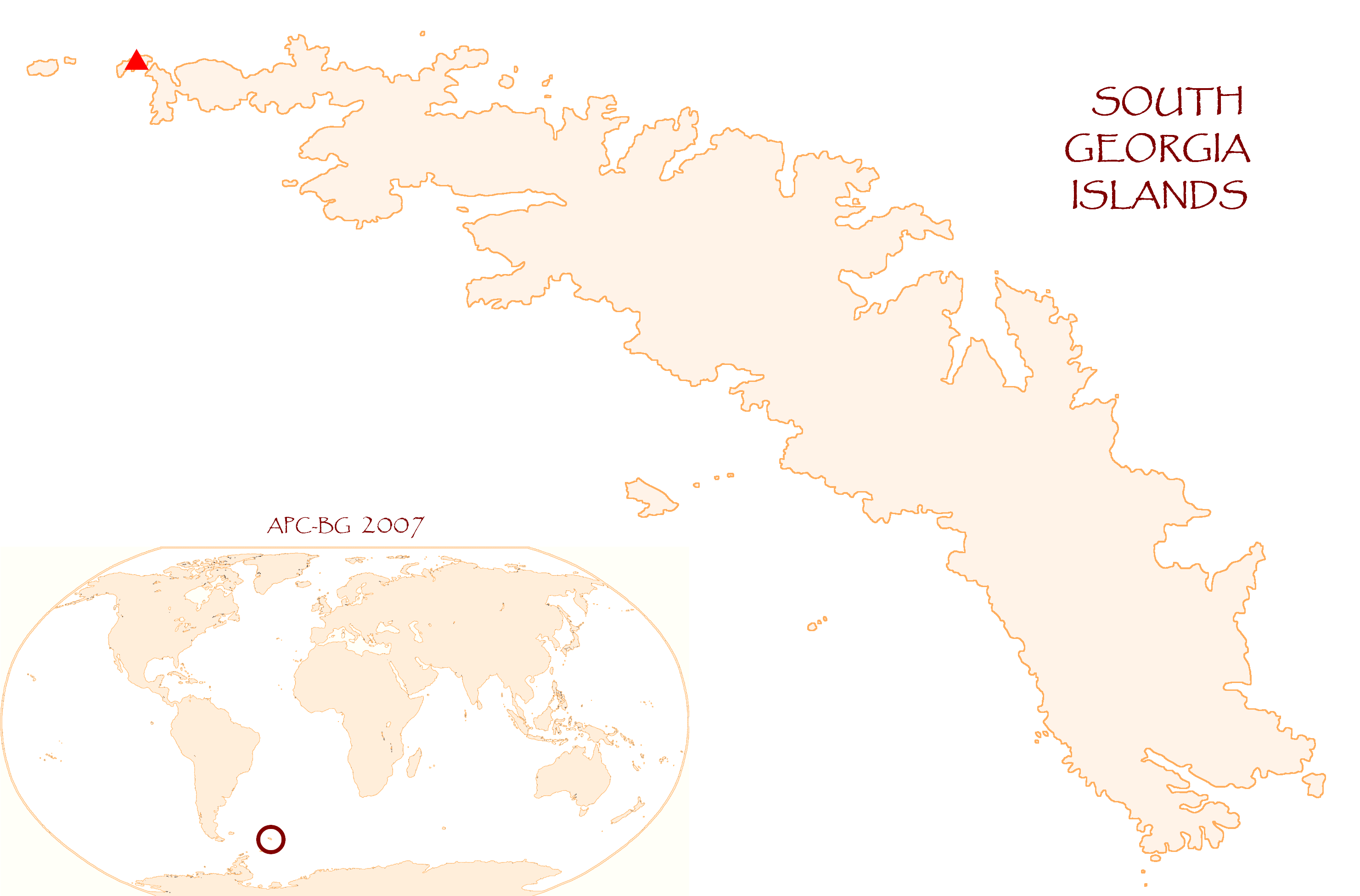 Location map for Roché Peak, Bird Island, South Georgia Islands